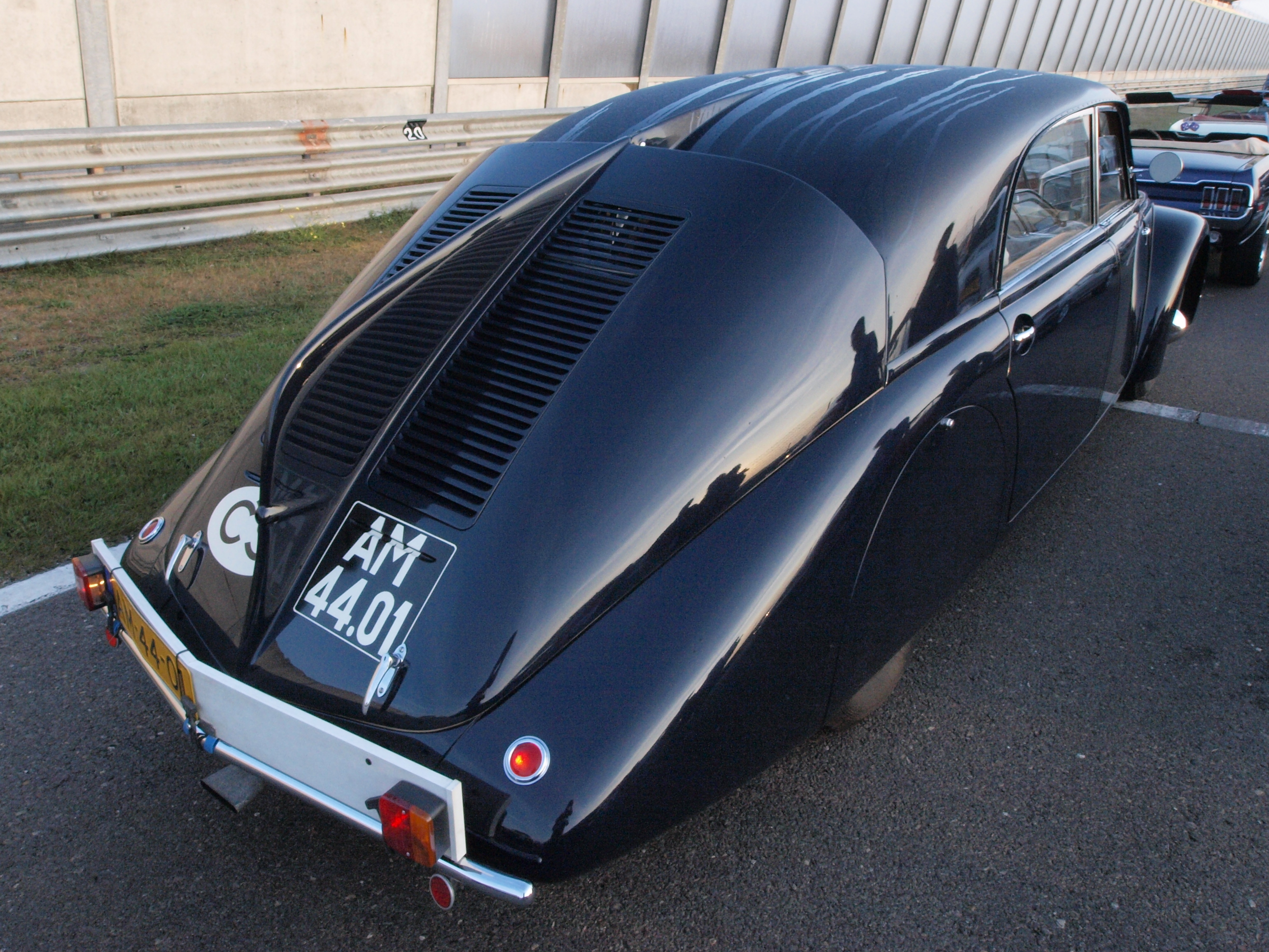 Photographed at the Nationaal Oldtimer Festival Zandvoort 2009, The Netherlands. OLYMPUS DIGITAL CAMERA